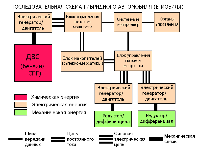 Schematic of Series-hybrid vehicle Yo-mobil (RUS)